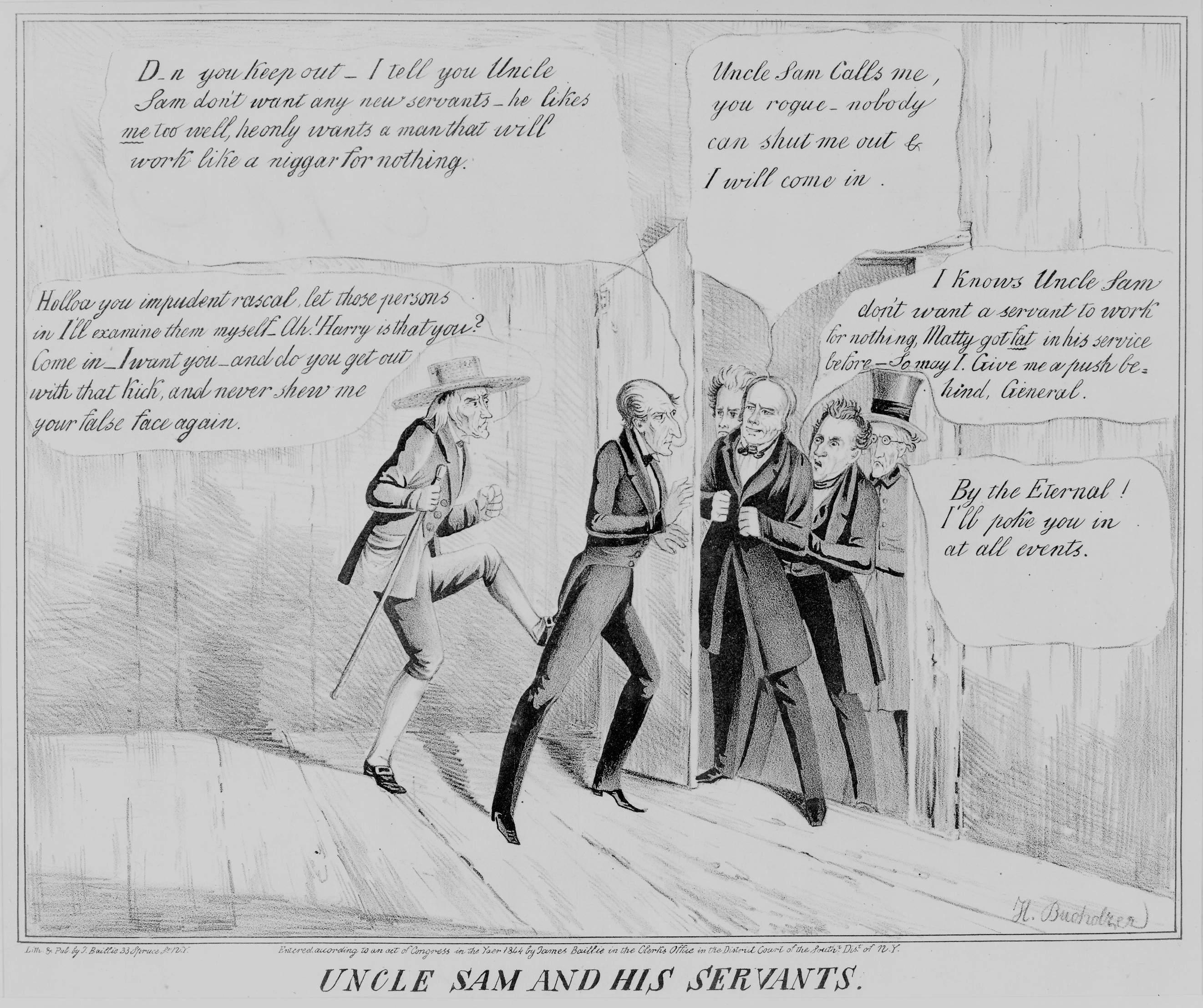 "Uncle Sam and his servants", an anti-Tyler satire, lampooning the incumbent's efforts to secure a second term against challengers Henry Clay and James Polk. Signed: H. Bucholzer, published by James Baillie in New York, 1844.